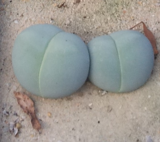 Gibbaeum heathii - different varieties in cultivation - CT